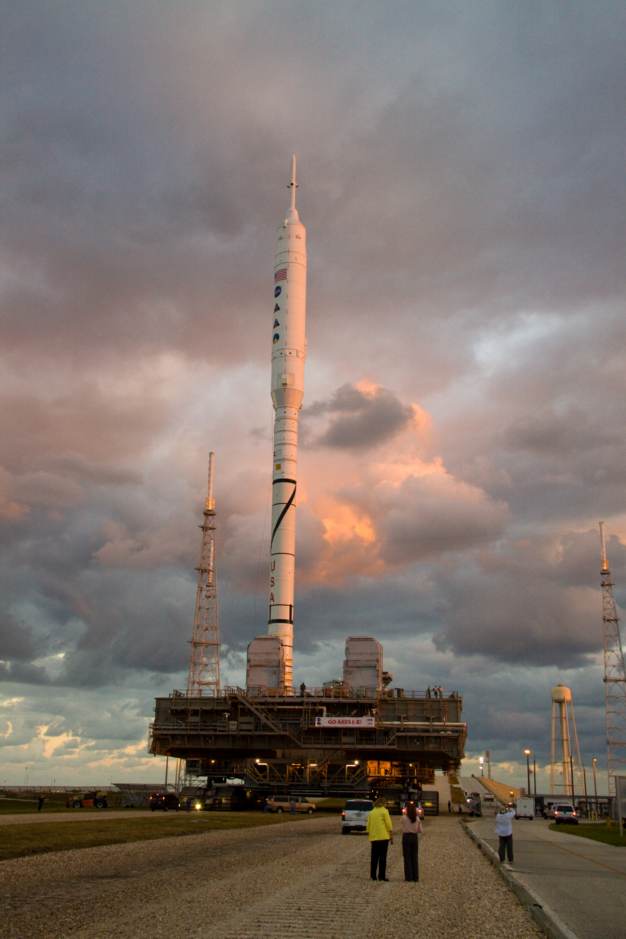 As the sun rises over Launch Pad 39B at NASA's Kennedy Space Center in Florida, the 327-foot-tall Ares I-X rocket, secured to a mobile launcher platform, approaches the pad's perimeter fence. The test rocket left the Vehicle Assembly Building at 1:39 a.m. EDT on its 4.2-mile trek to the pad and was "hard down" on the pad’s pedestals at 9:17 a.m. The transfer of the pad from the Space Shuttle Program to the Constellation Program took place May 31. Modifications made to the pad include the removal of shuttle unique subsystems, such as the orbiter access arm and a section of the gaseous oxygen vent arm, along with the installation of three 600-foot lightning towers, access platforms, environmental control systems and a vehicle stabilization system. Part of the Constellation Program, the Ares I-X is the test vehicle for the Ares I. The Ares I-X flight test is targeted for Oct. 27.